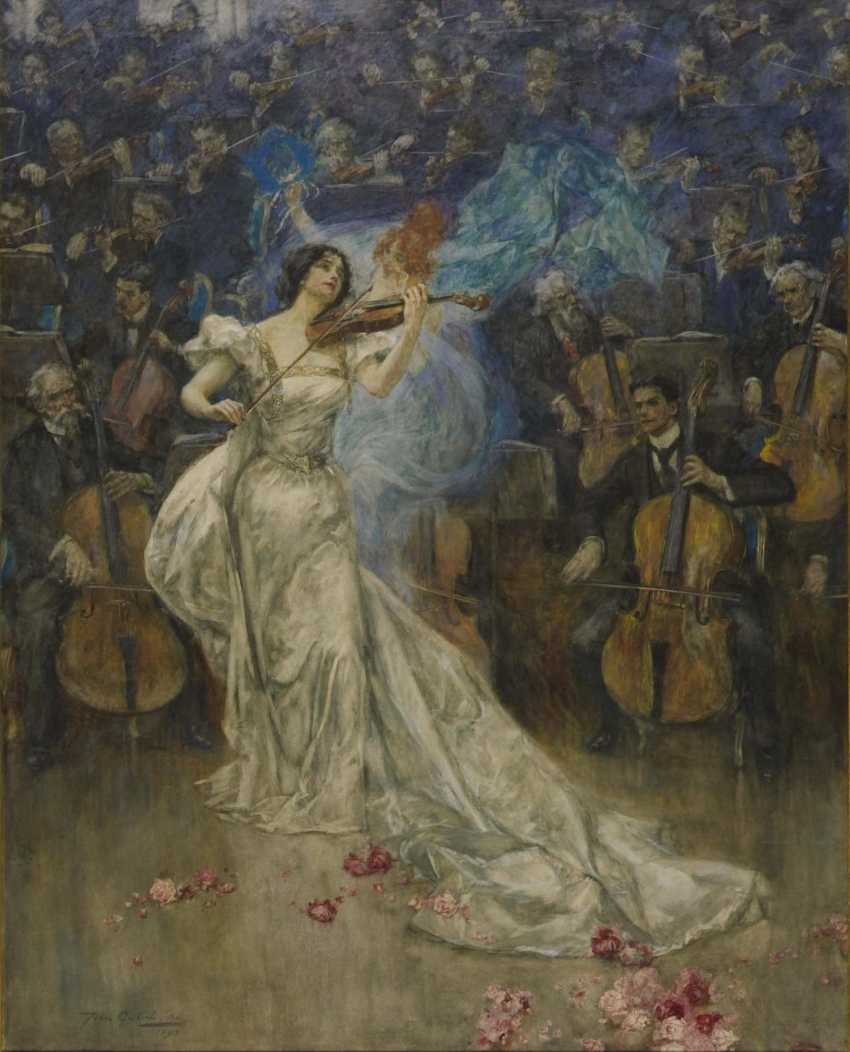 A Violin Concerto 1898 John Gulich 1864-1898 Presented by Sir Henry Tate 1899